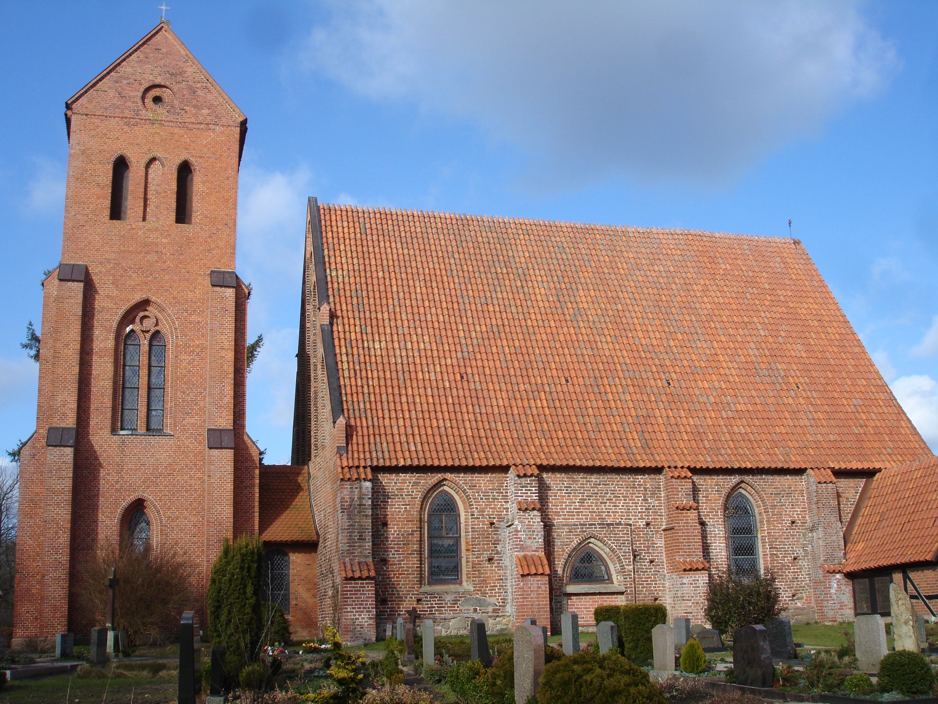 Church in Cramon, district Nordwestmecklenburg, Mecklenburg-Vorpommern, Germany